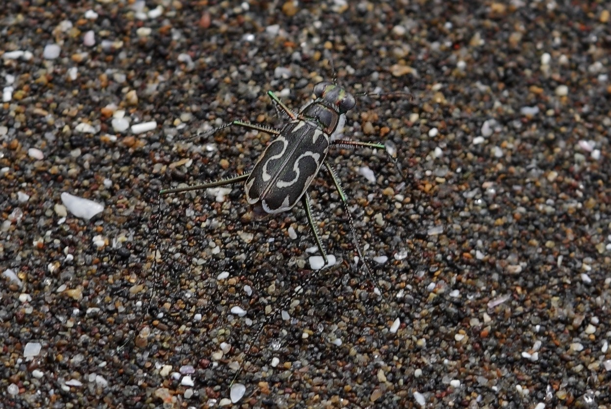 Abroscelis longipes Fabricius, 1798 Family: Cicindelidae (Tiger beetles, Sandlaufkäfer) Indonesia, W-Java: Batu Karas, 0m asl. (at the beach), 27.04.2011 IMG_1465